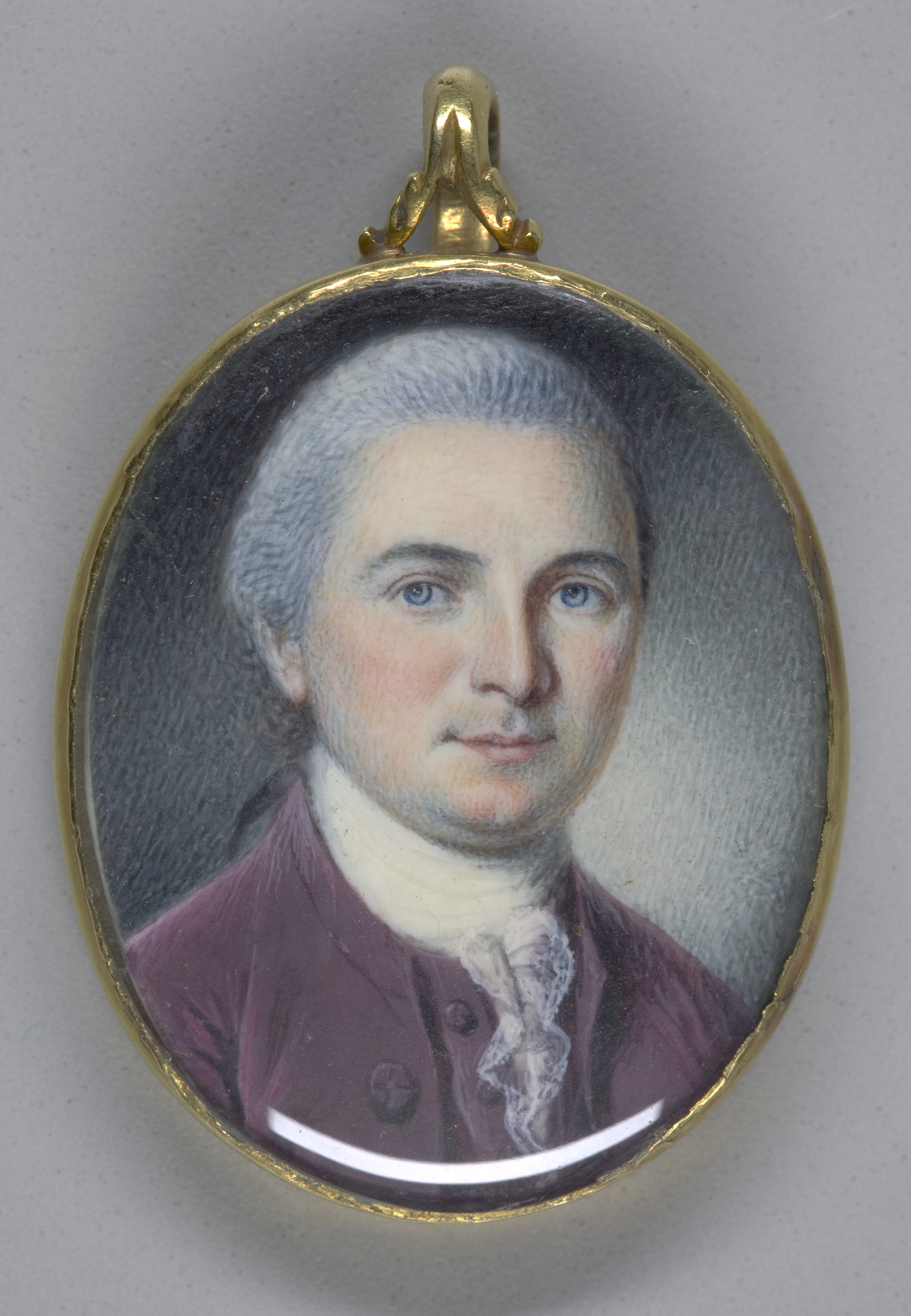 Artist: Charles Willson Peale, American, 1741–1827 Subject: George Walton, American, 1749(?)–1804 George Walton (1749 or 1750-1804) ca. 1781 Watercolor on ivory 1 3/8 × 1 1/8 in. (3.5 × 2.9 cm) framed: 1 11/16 × 1 1/8 in. (4.3 × 2.9 cm) Mabel Brady Garvan Collection 1944.74 Status: Not on view Culture: American Period: 18th century Classification: Miniatures - Jewelry